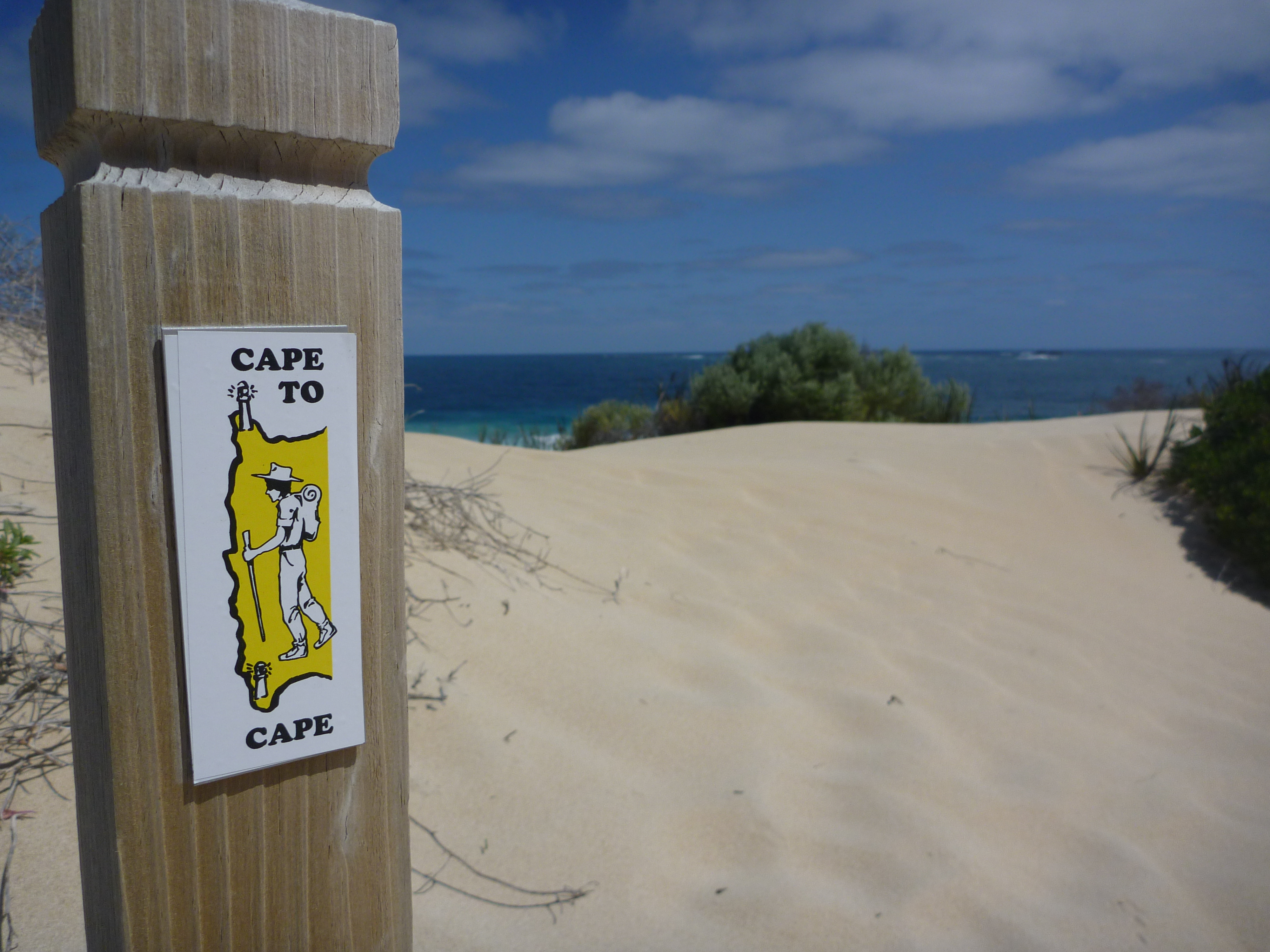 Picture of Cape to Cape track marker taken near Deep Dene Beach